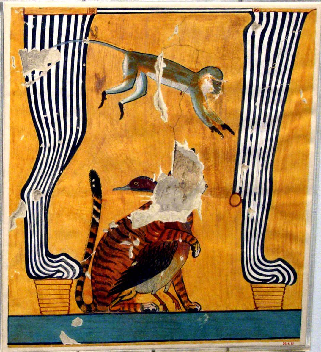 Facsimile, Anen (TT 120), cat, duck, monkey